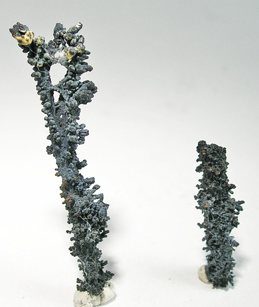 Psilomelane Locality: Bisbee, Warren District, Mule Mts, Cochise County, Arizona, USA (Locality at ) Size: 3.2 x 0.6 x 0.6 cm (largest). Psilomelane is an obsolete group name for hard black manganese oxides. It is known to have occurred in many of the mines in the historic Bisbee District, but is very rare as preserved specimens. This excellent and very rare, two-piece set consists of nubby, very light weight, purple-gray psilomelane stalactites. Both ends of the smaller piece appear to be broken, but the larger piece has a fabulous branching and connected termination. Probably old material, but no proof. Ex. Dennis Mullane Bisbee Collection.